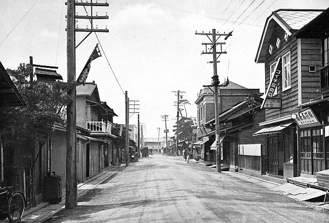 Oiso in 1930s